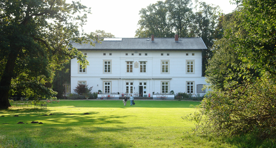 Bliestorf Manner Parkview